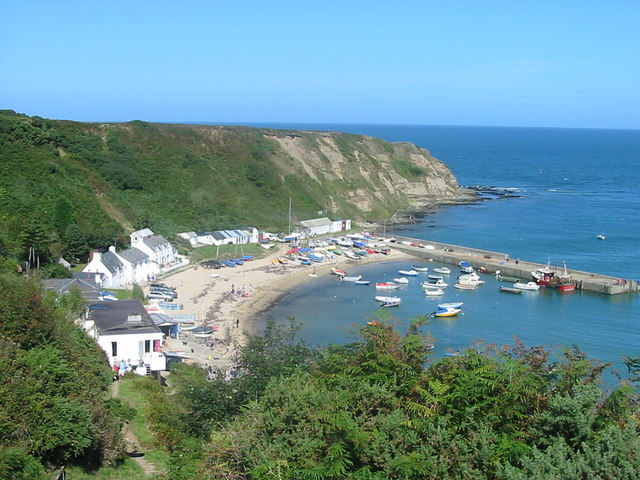 Penrhyn Nefyn